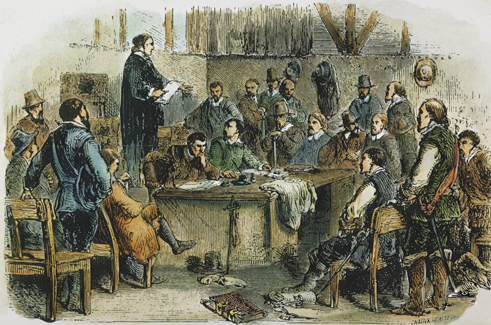 Colorized version of image P78 Meeting of the Assembly in the Settlement of Virginia.jpg in Wikipedia. It is an illustration from Cassell's history of England, Vol 3.